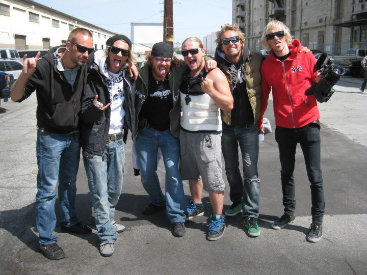 A picture of The Dudesons and Tuukka Tiensuu while filming on Hollywood.